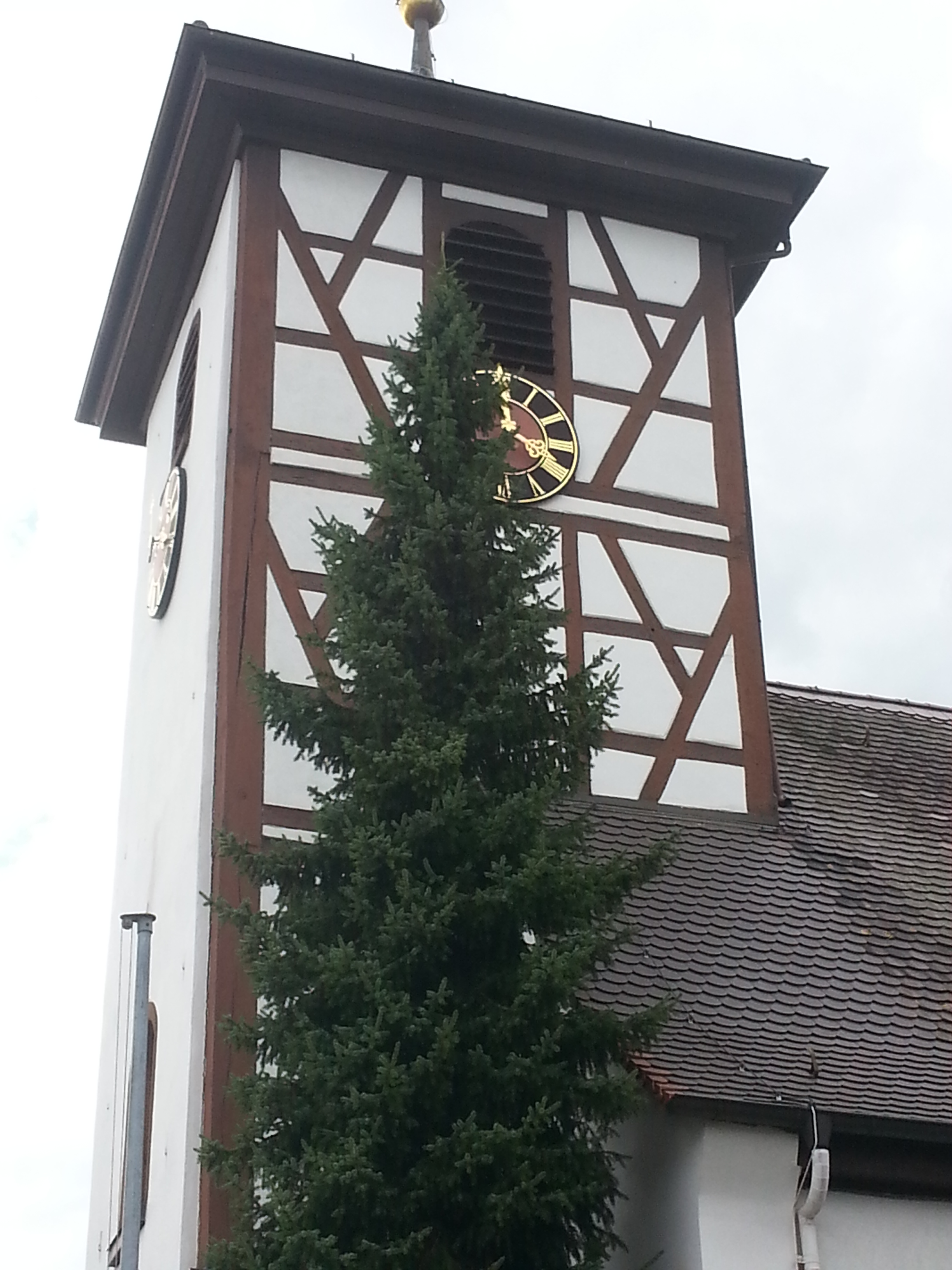 The church of Memprechtshofen